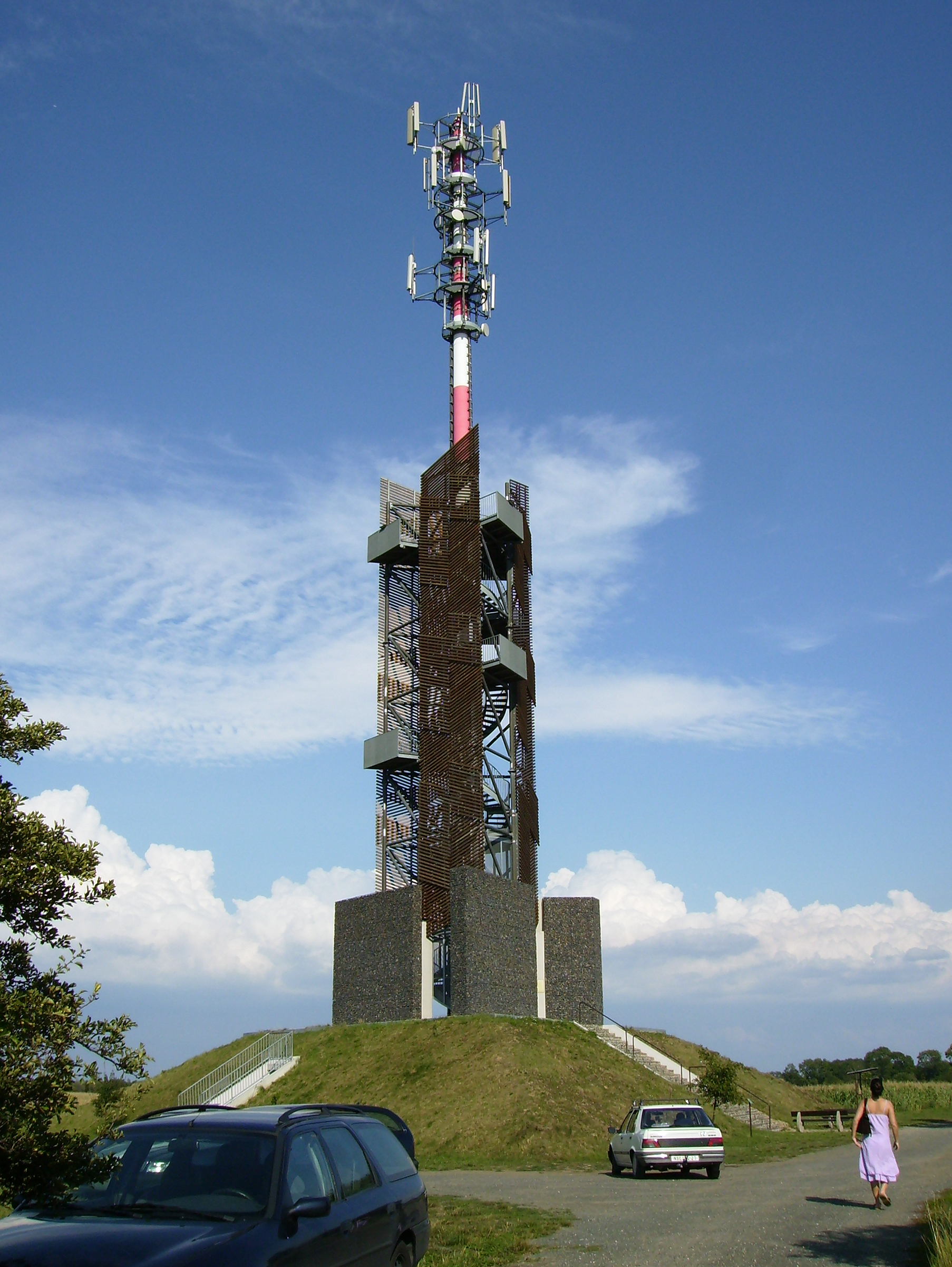 Romanka lookout tower near Hrubý Jeseník, Nymburk District, Czech Republic